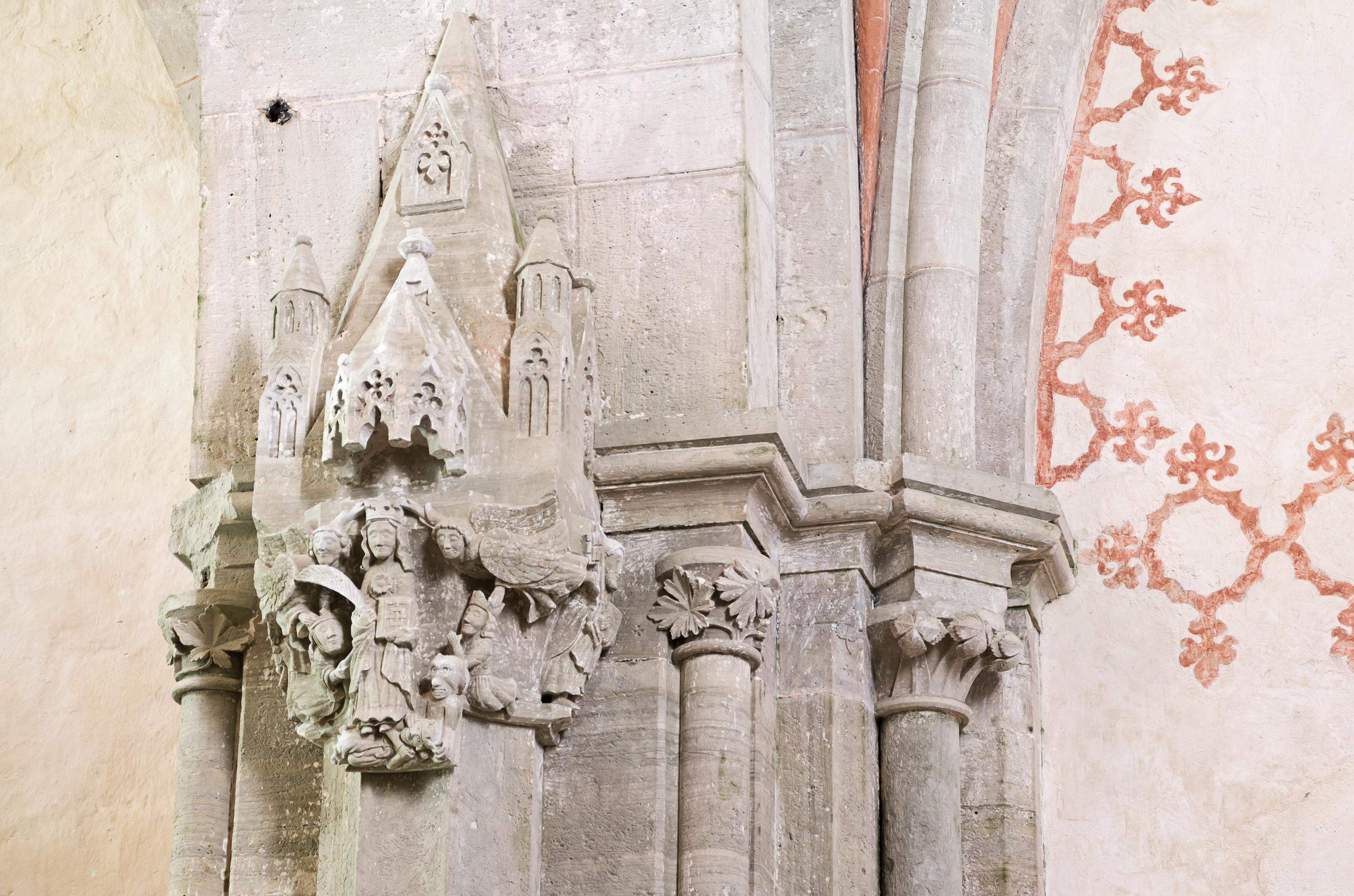 St Catherine's group on the north side of chancel arch in Karja church